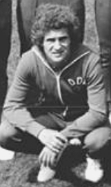 Title: Olympiade, DDR-Fußball-Nationalmannschaft Factual corrections and alternative descriptions are encouraged separately from the original description. Additionally errors can be reported at this page to inform the Bundesarchiv. Original historic description: Wolfgang Steinbach, 1980 als Nationalspieler